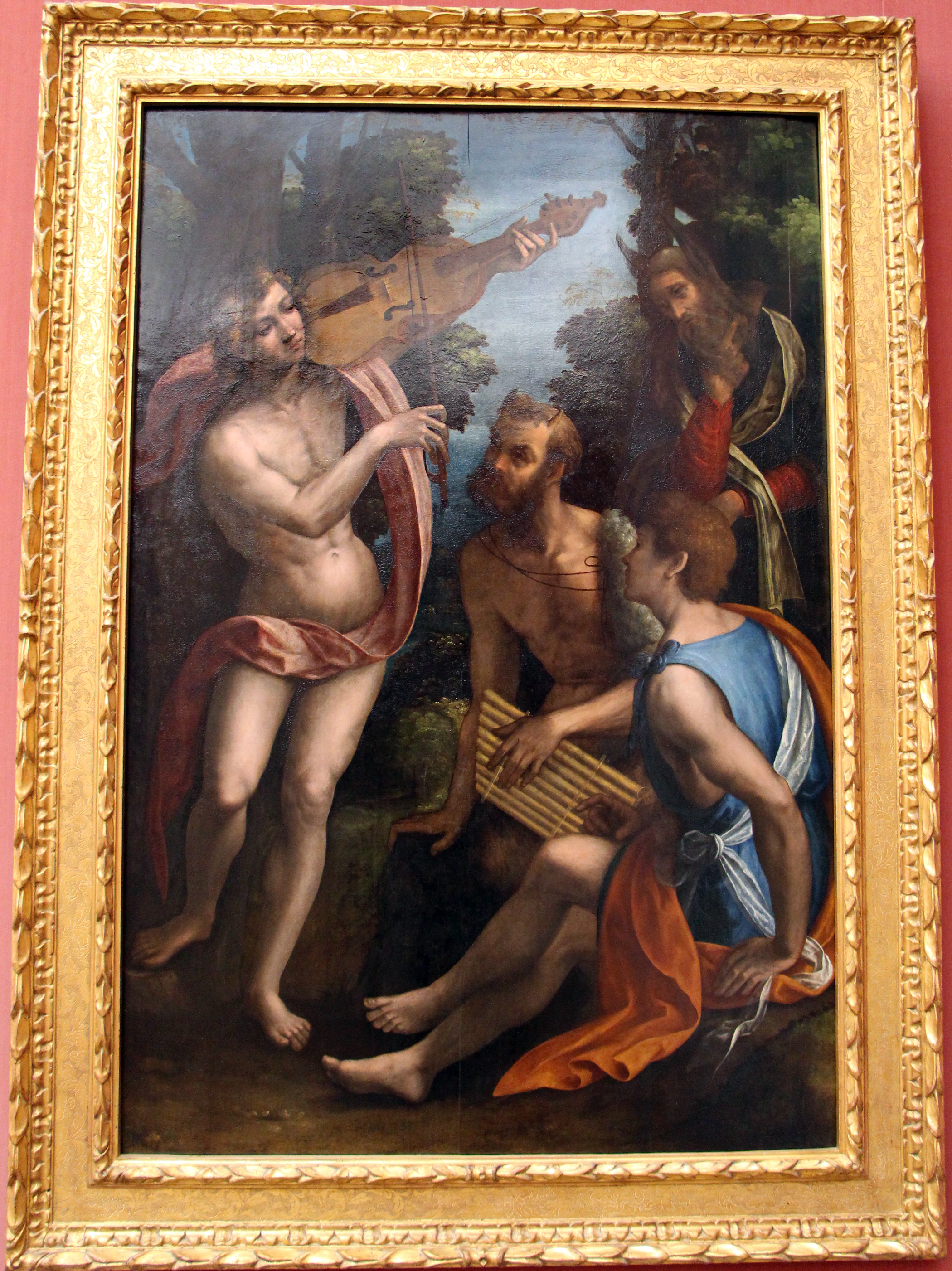 Italian Renaissance paintings in the Gemäldegalerie, Berlin